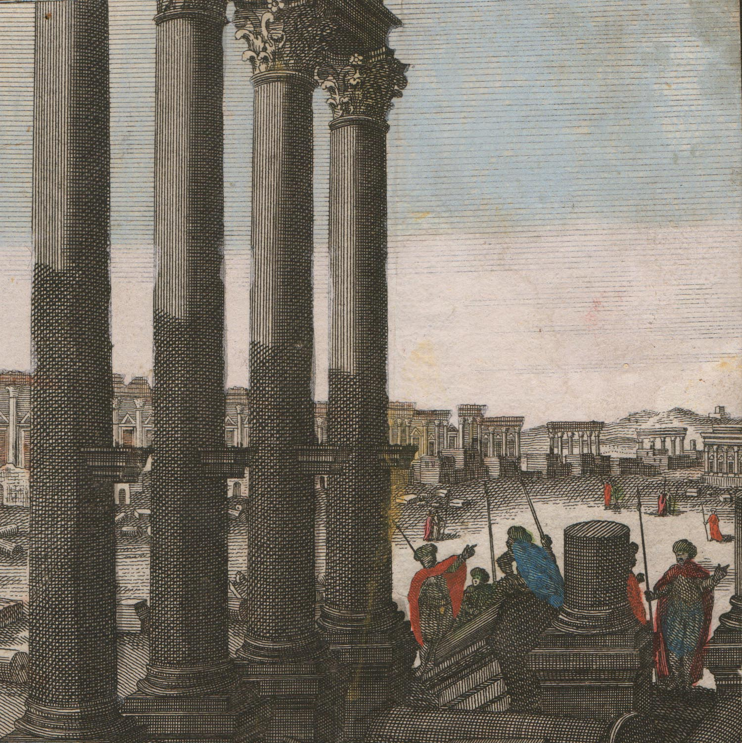 The Temple of the sun in Palmyra +